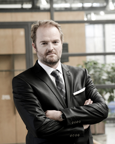 Author Istok Kespret in 2016